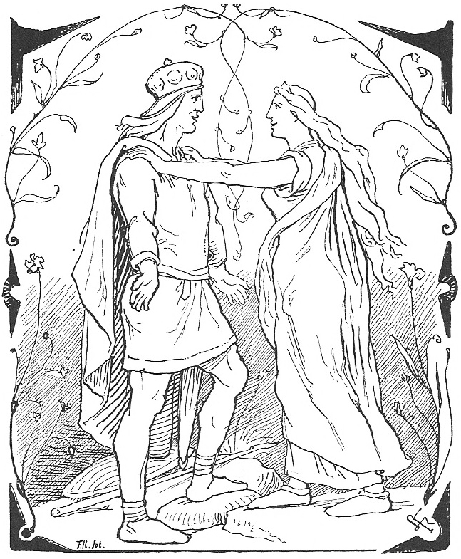 Svipdagr is reunited with Menglöð as described in Fjölsvinnsmál.